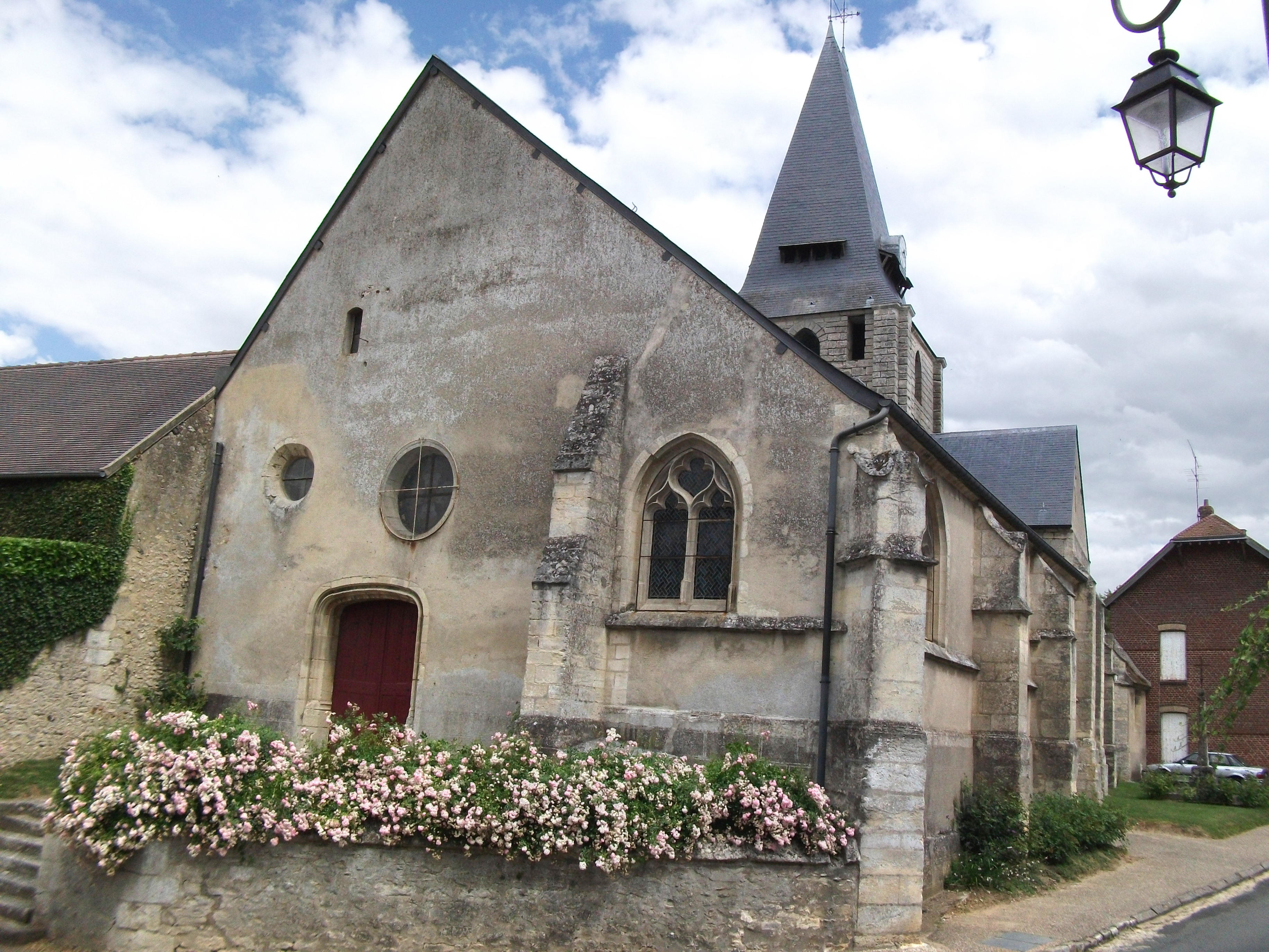 Boury-en-Vexin church, France